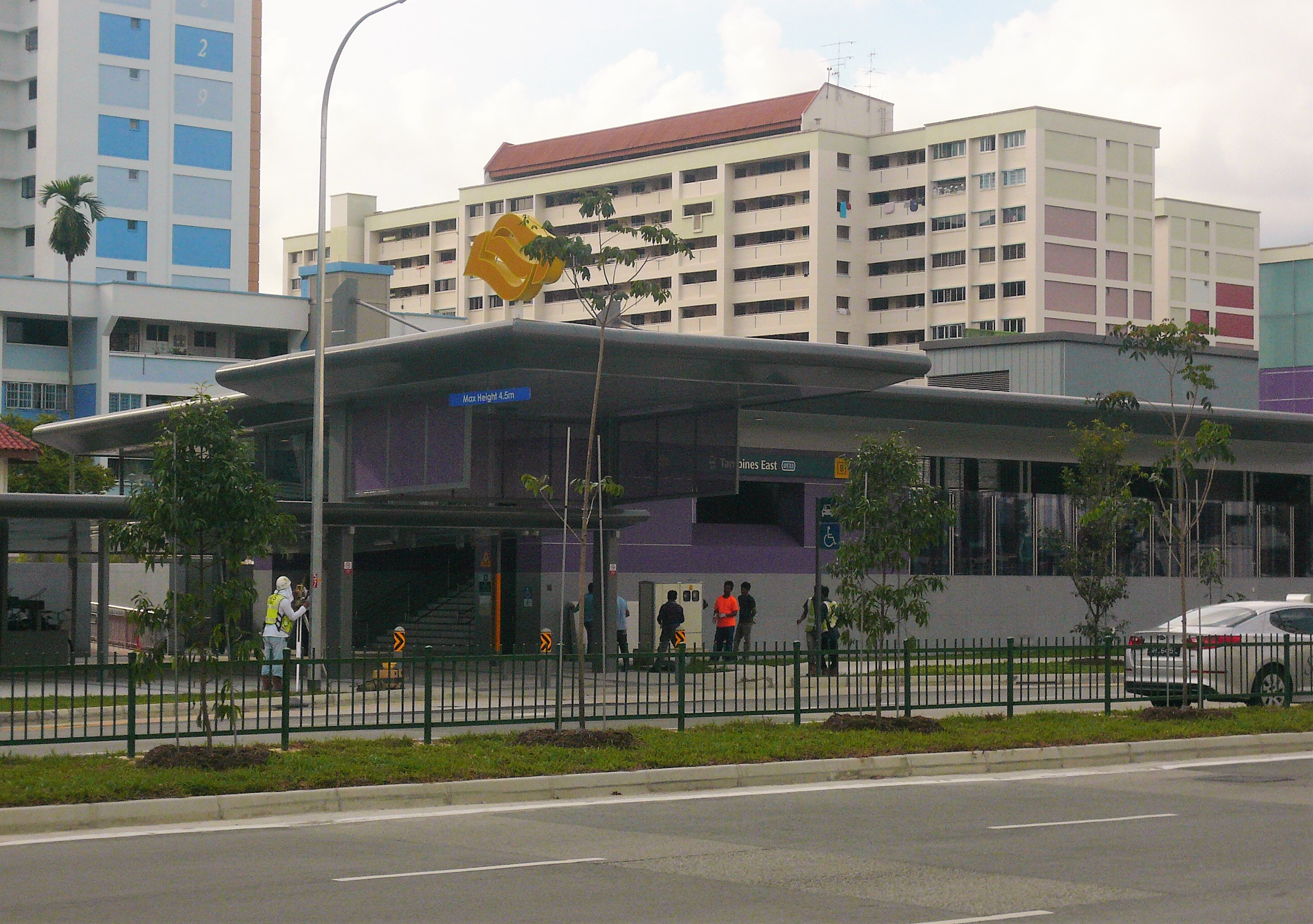 Exit B of Tampines East MRT Station